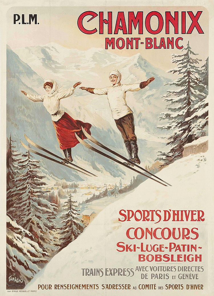 Poster Chamonix by Tamagno